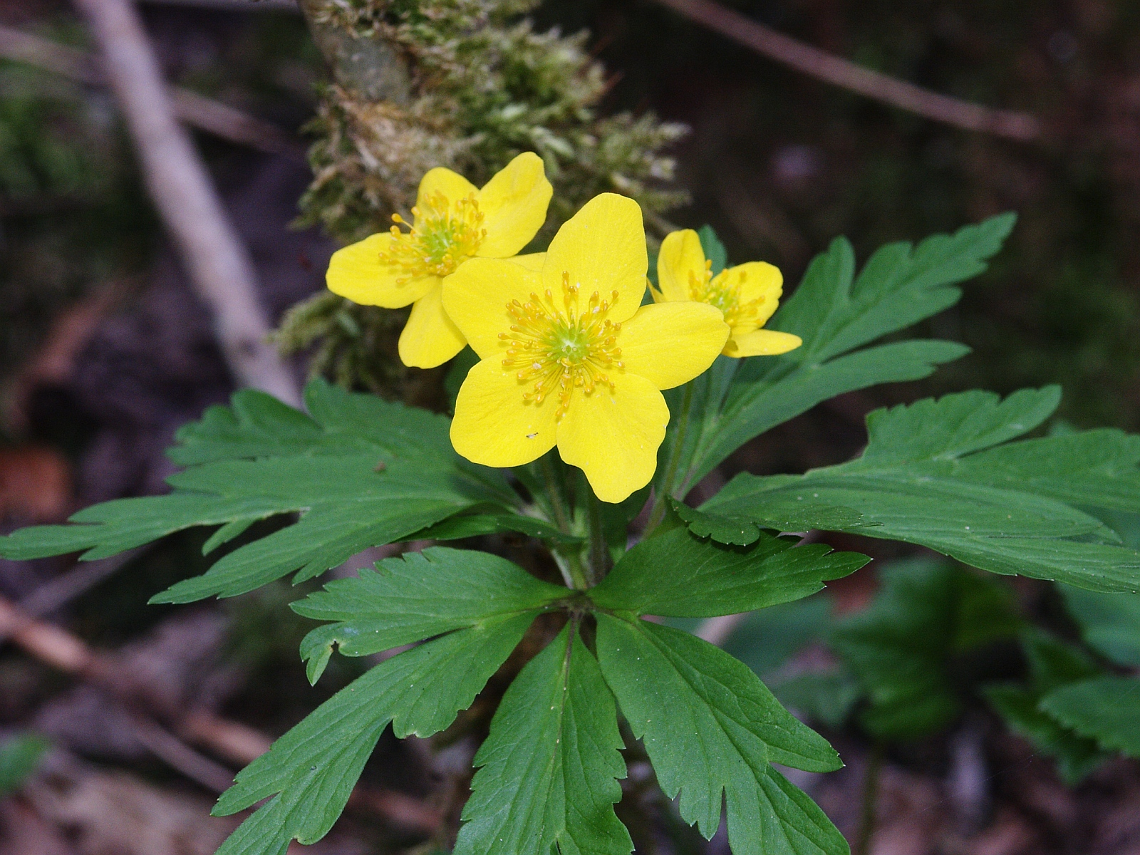 Anemone ranunculoides, Hohenloher Land, Germany